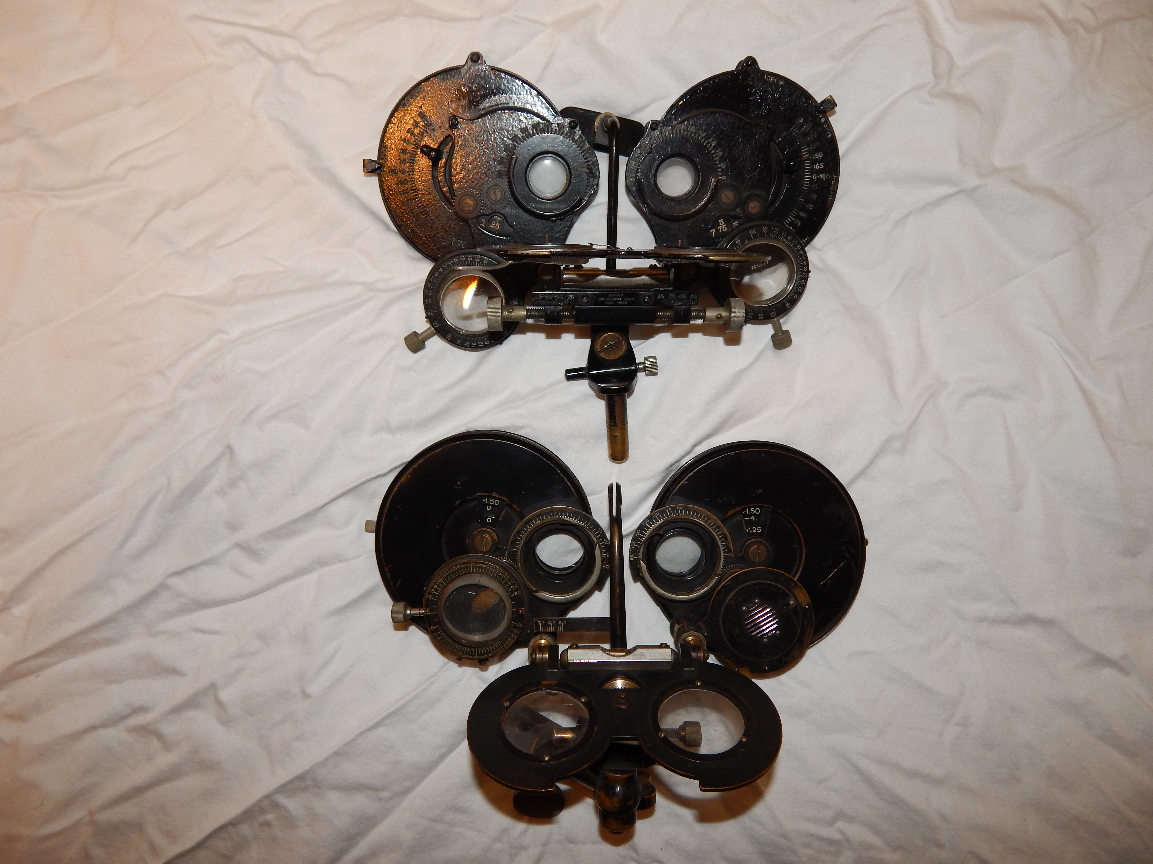 1917, the first phoropters. Top, the Woolf Ski-Optometer of New York City; bottom, the DeZeng Phoro-Optometer of Camden, NJ.